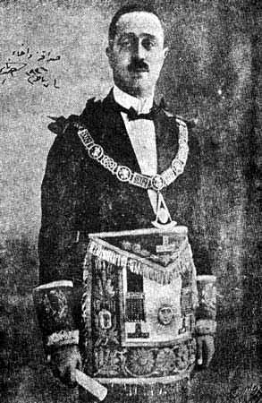 Ahmad Nami the 2nd head of state in Syria (1926–1928)